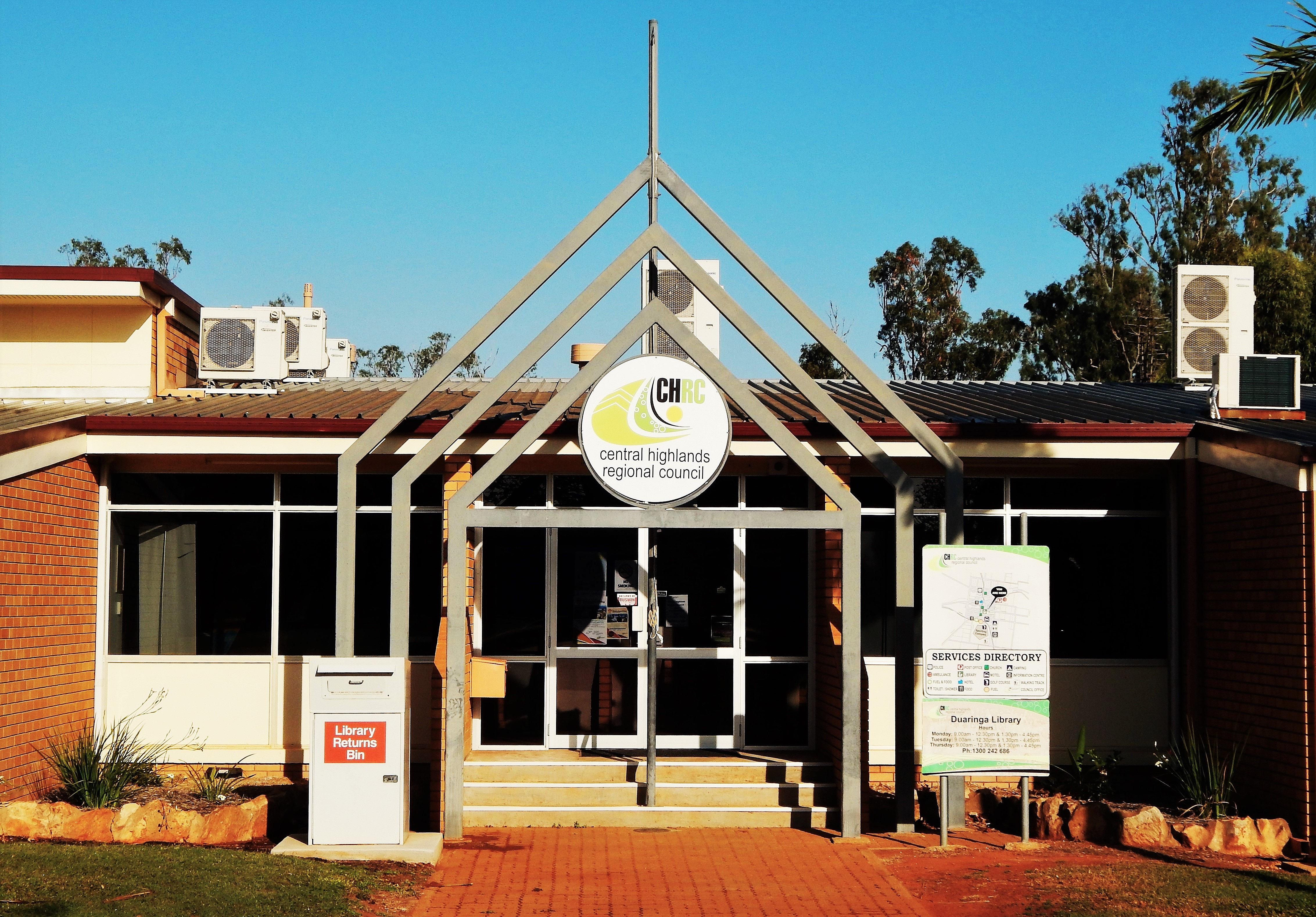 The local offices of the Central Highlands Regional Council in Duaringa, Queensland. The building was previously the administration centre for Duaringa Shire Council, before the old council area was amalgamated into the newly formed Central Highlands Region local government area in 2008.